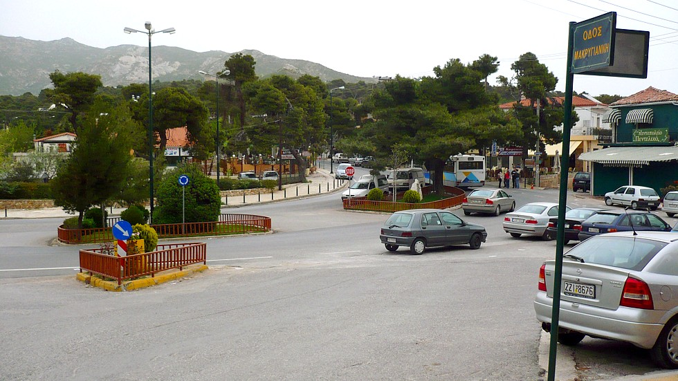 The above picture depicts the center of Penteli.